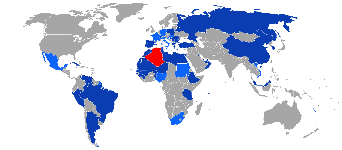 Visa policy of Algeria for holders of diplomatic and service category passports Algeria Visa free access for diplomatic and service category passports Visa free access for diplomatic passports